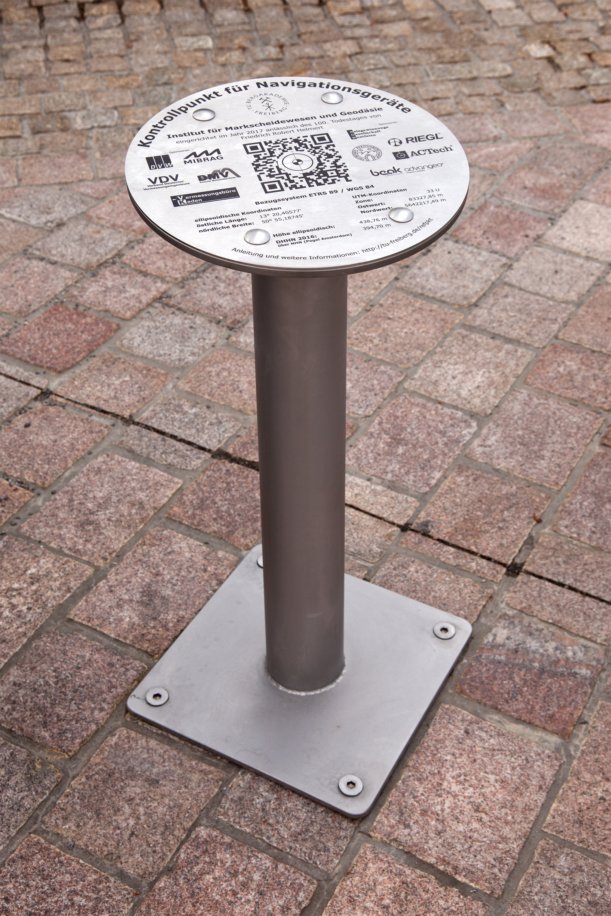 Geodetic control point in Freiberg, Schlossplatz